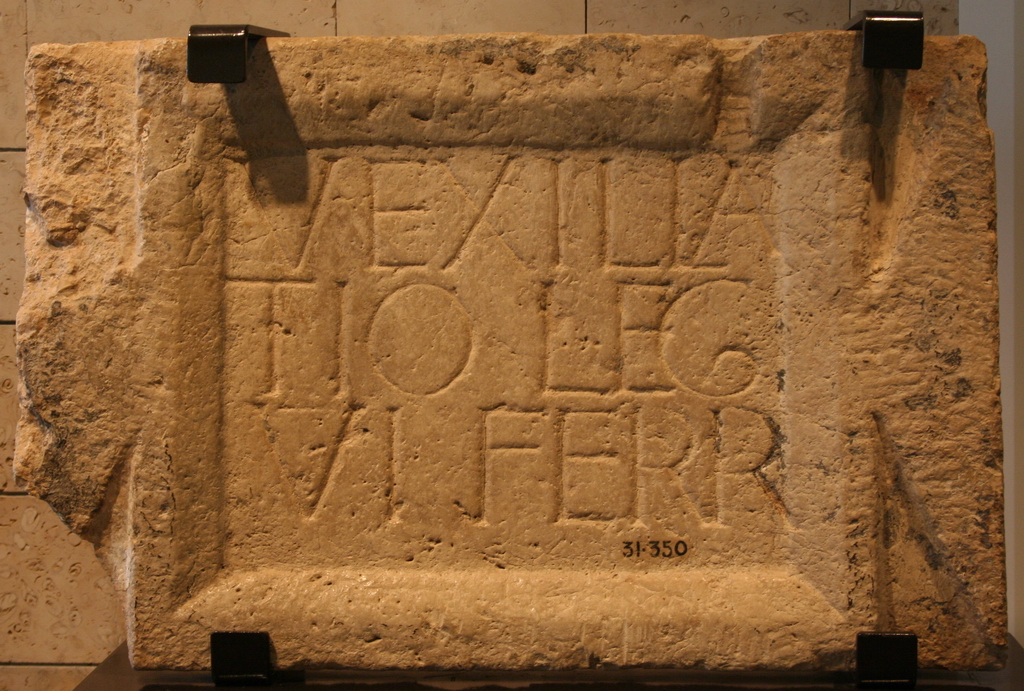 Found in Beit Jibrīn. On display at Haifa Hecht Museum. AE 1933, 00158